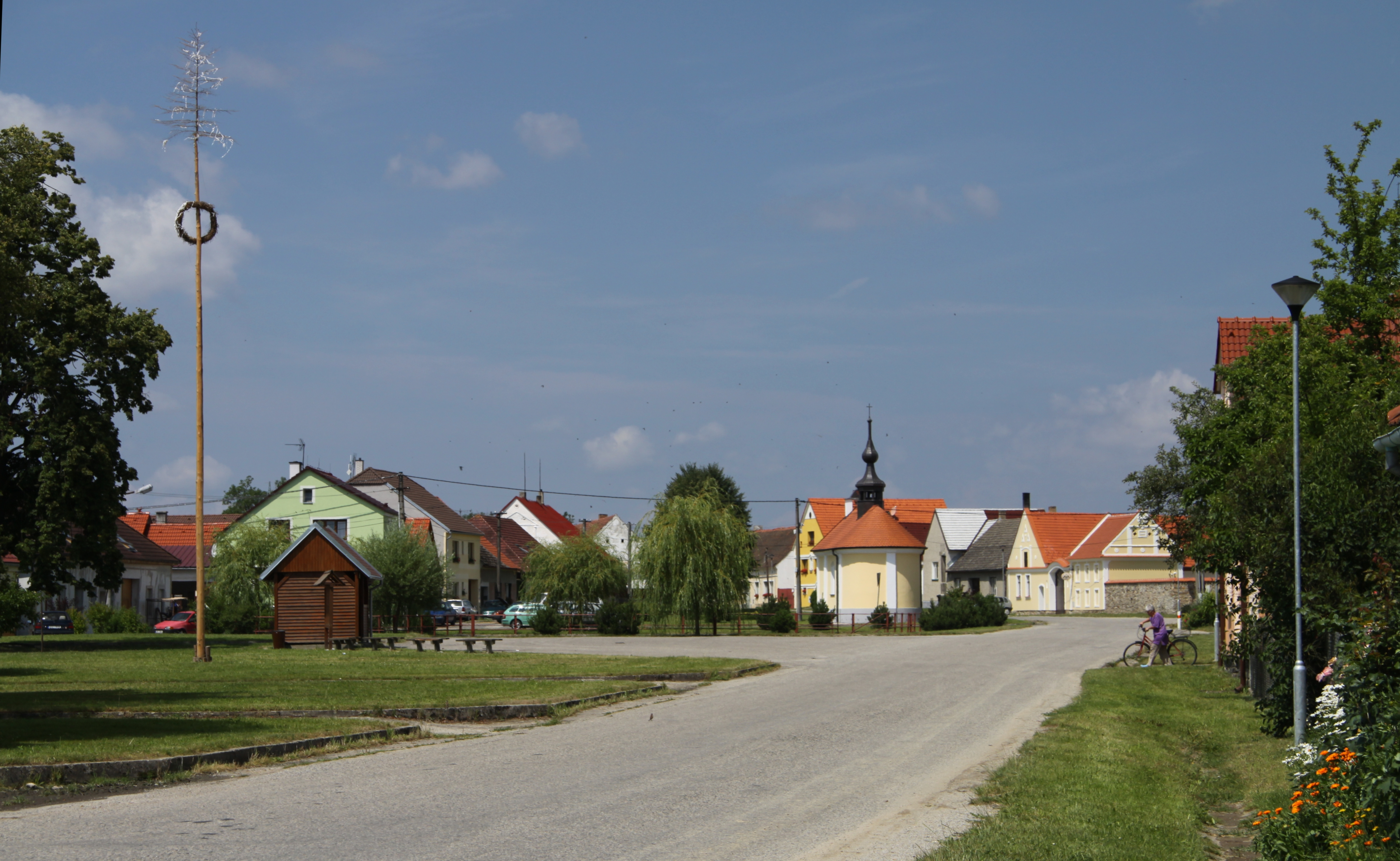 Žíšov village in Tábor District, Czech Republic - Google Maps - Google Earth